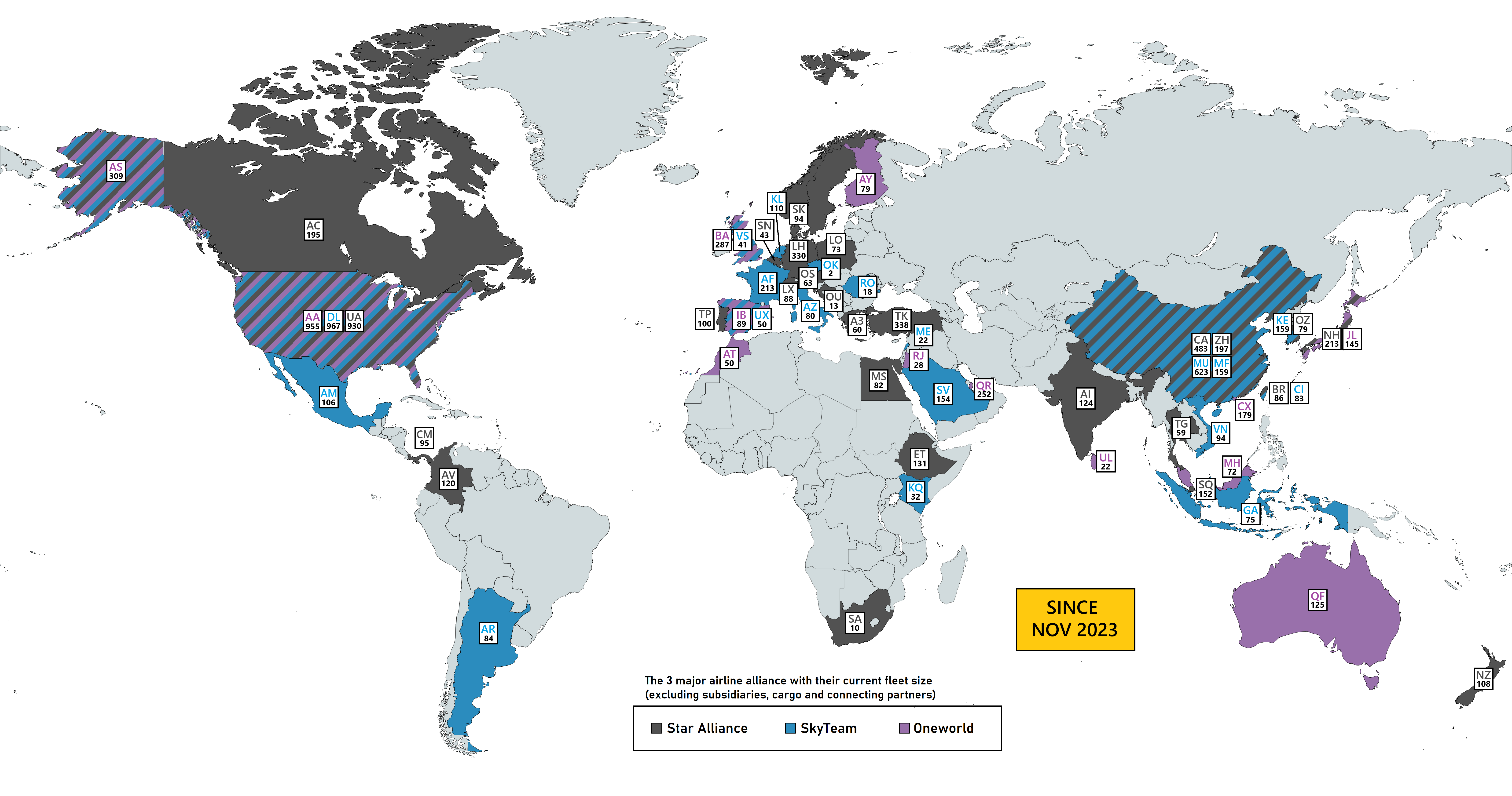 World map showing 3 major airline alliances and the current fleet size of their home carrier (Excluding subsidiaries, cargo and connecting partners). Valid from 1 May 2020. Star Alliance (Grey), SkyTeam (Blue), Oneworld (Purple); Data retrieved from on 27 April 2020